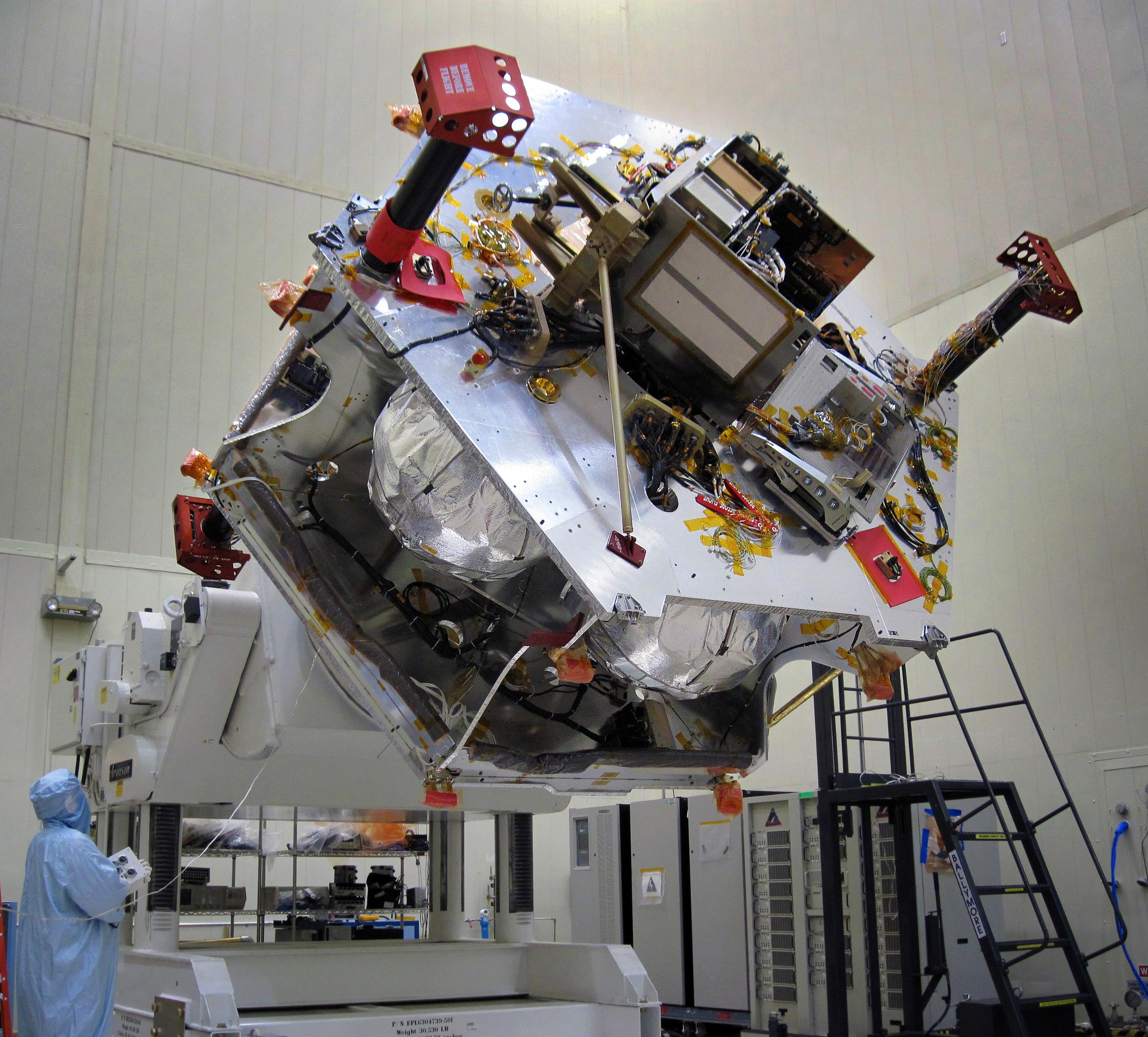 Once the radiation vault was installed on top of the propulsion module, NASA's Juno spacecraft was lifted onto a large rotation fixture to continue with its assembly process. The fixture allows the spacecraft to be turned for convenient access for integrating and testing instruments. Juno's specially designed radiation vault protects the spacecraft's electronic brain and heart from Jupiter's harsh radiation environment. The vault will dramatically slow down the aging effect radiation has on the electronics for the duration of the mission. The image was taken on June 14, 2010, as Juno was being assembled in a clean room at Lockheed Martin Space Systems, Denver.